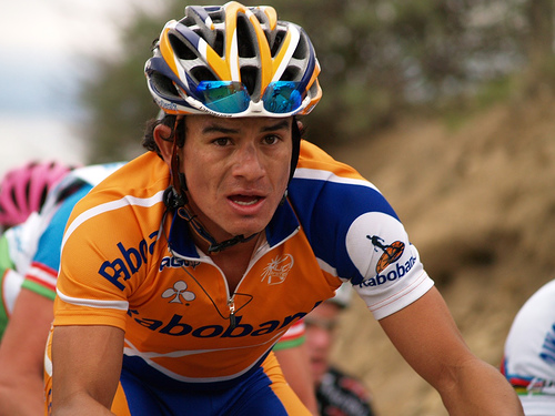 Mauricio Alberto Ardila Cano at the Sierra Climb at the CAT-1 tour of CaliforniaMauricio Alberto Ardila Cano